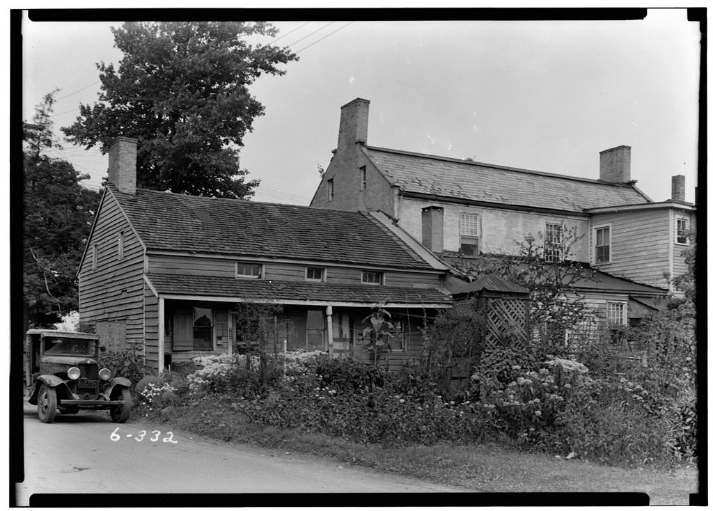 Reproduction Number: HABS NJ,18-RAR,1--2